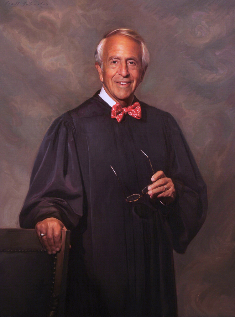 Judge Charles Breyer official portrait art by Scott Johnston, oil on linen, 36x28-inches, collection of the United States District Court of Northern California